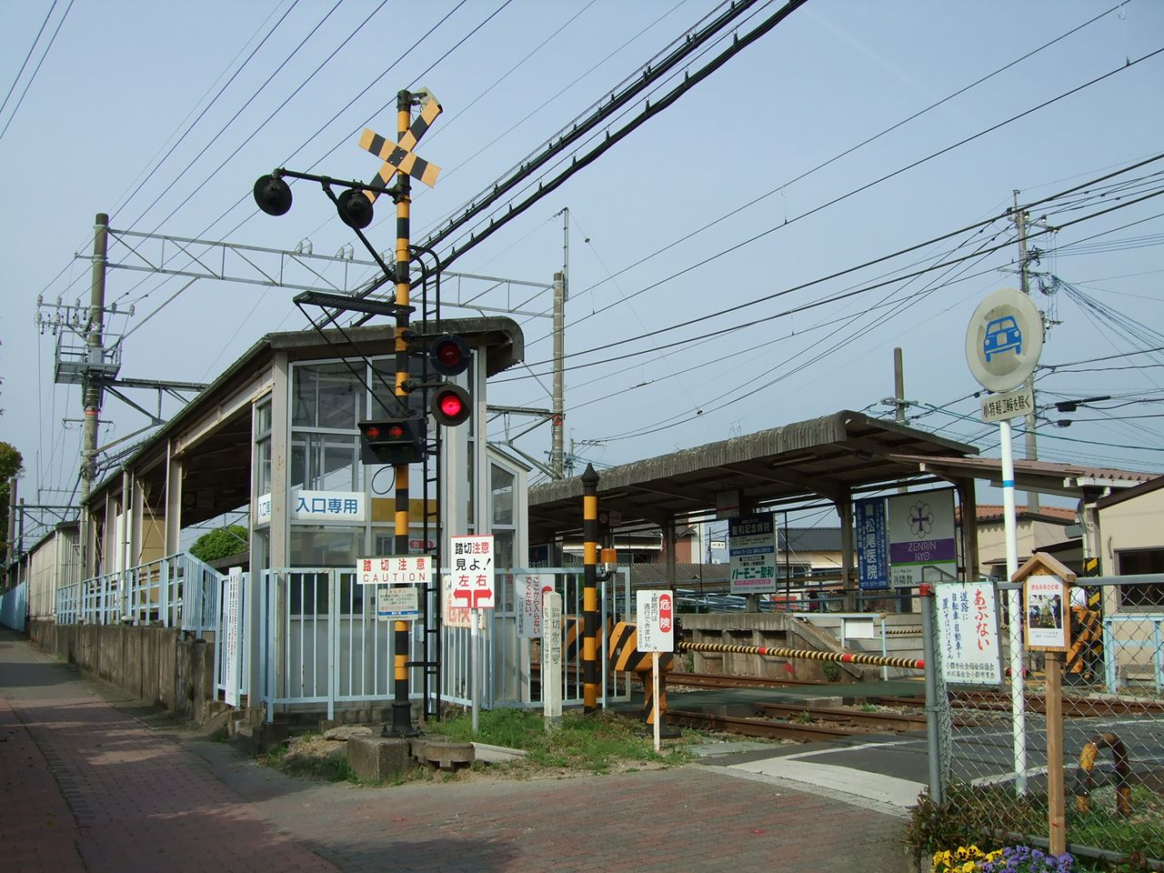 Tsuko Station, Nishitetsu Tenjin Omuta Line.